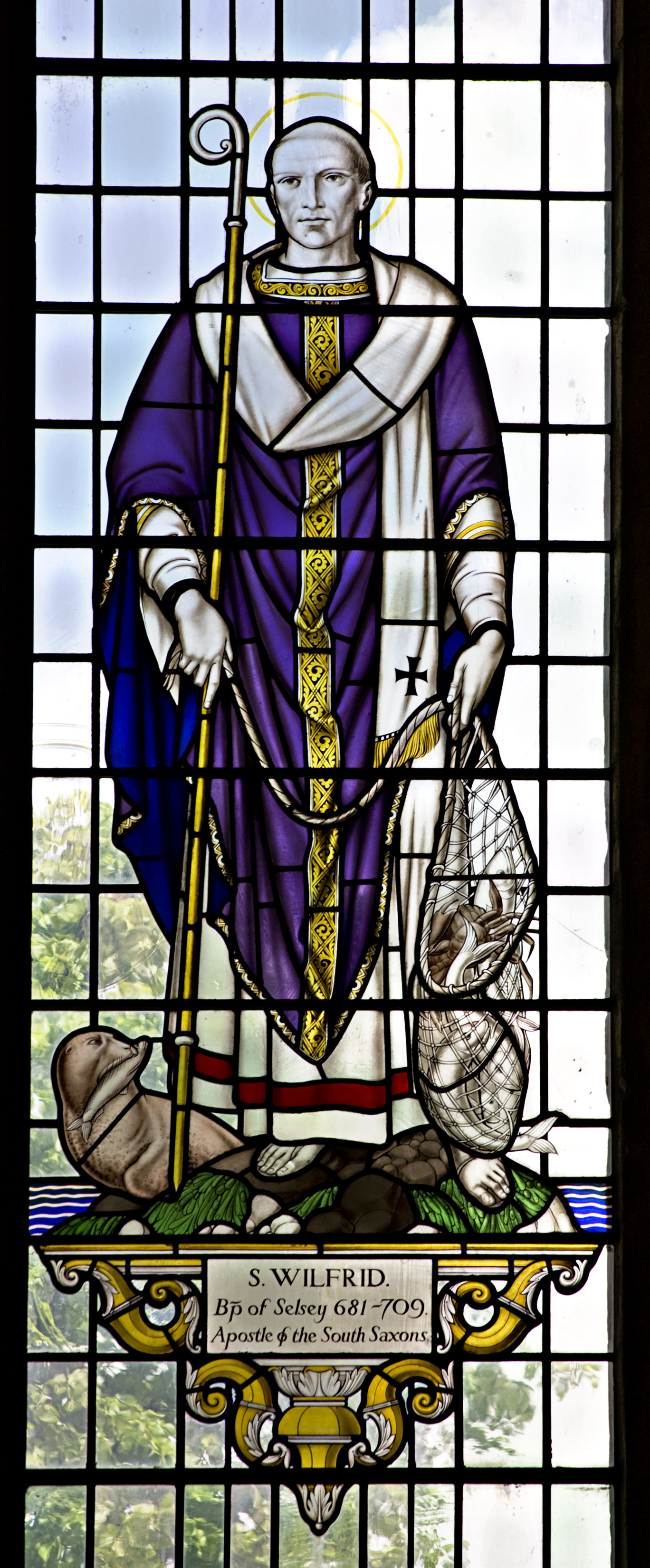 Window in Chichester Cathedral depicting St Wilfrid